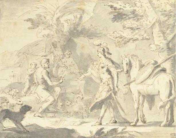 Artist: Placido Campolo Title: Herminie chez les Bergers Medium: Chalk, pen and ink and wash Size: (7.9 x 10.1 in) (20 x 25.7 cm)